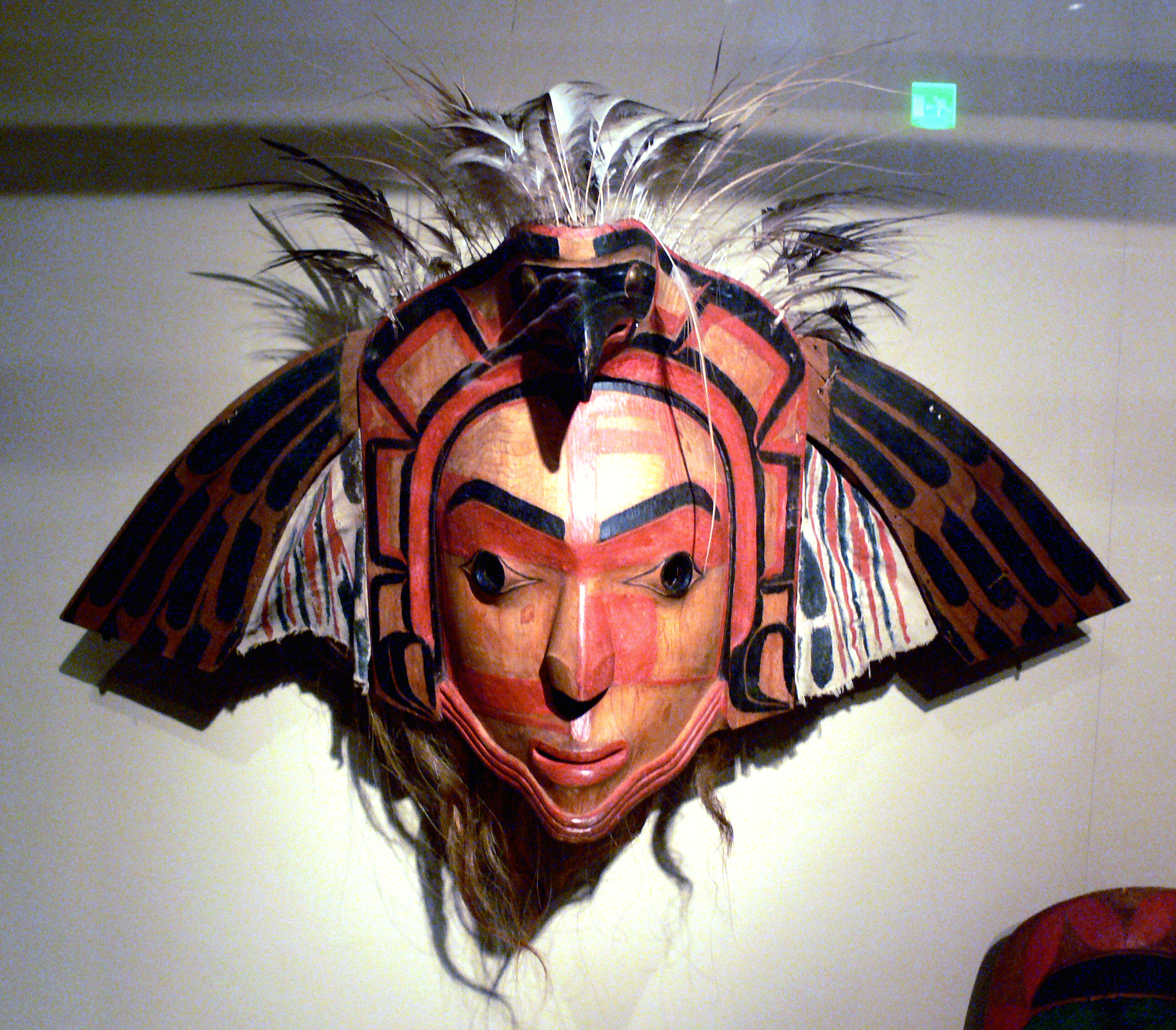 Eagle mask with movable wings; Nootka; North America department, Ethnological Museum, Berlin, Germany (Jacobsen collection, 1881)